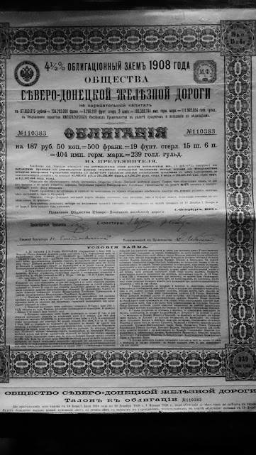 North-Donetsk railway Bond